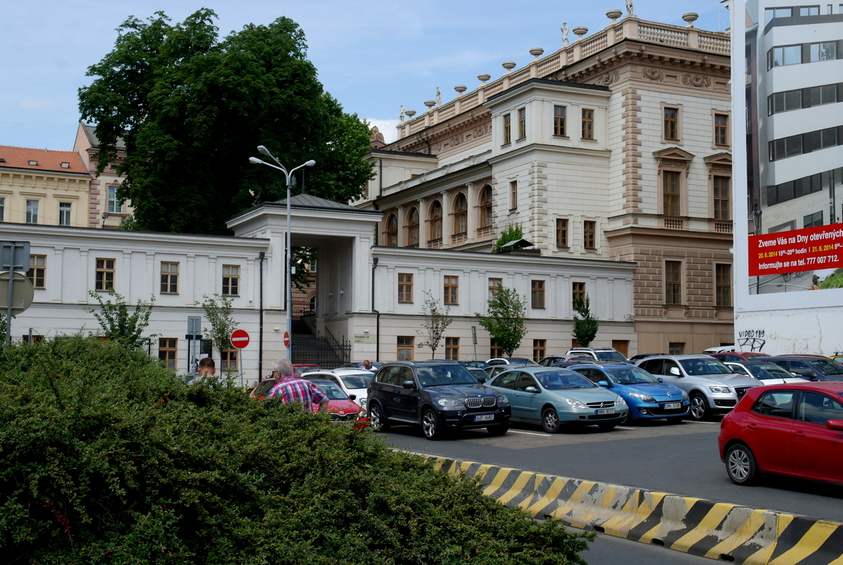 Assembly House, Husova 534/20, Brno City. Entrance of the Concert Hall.